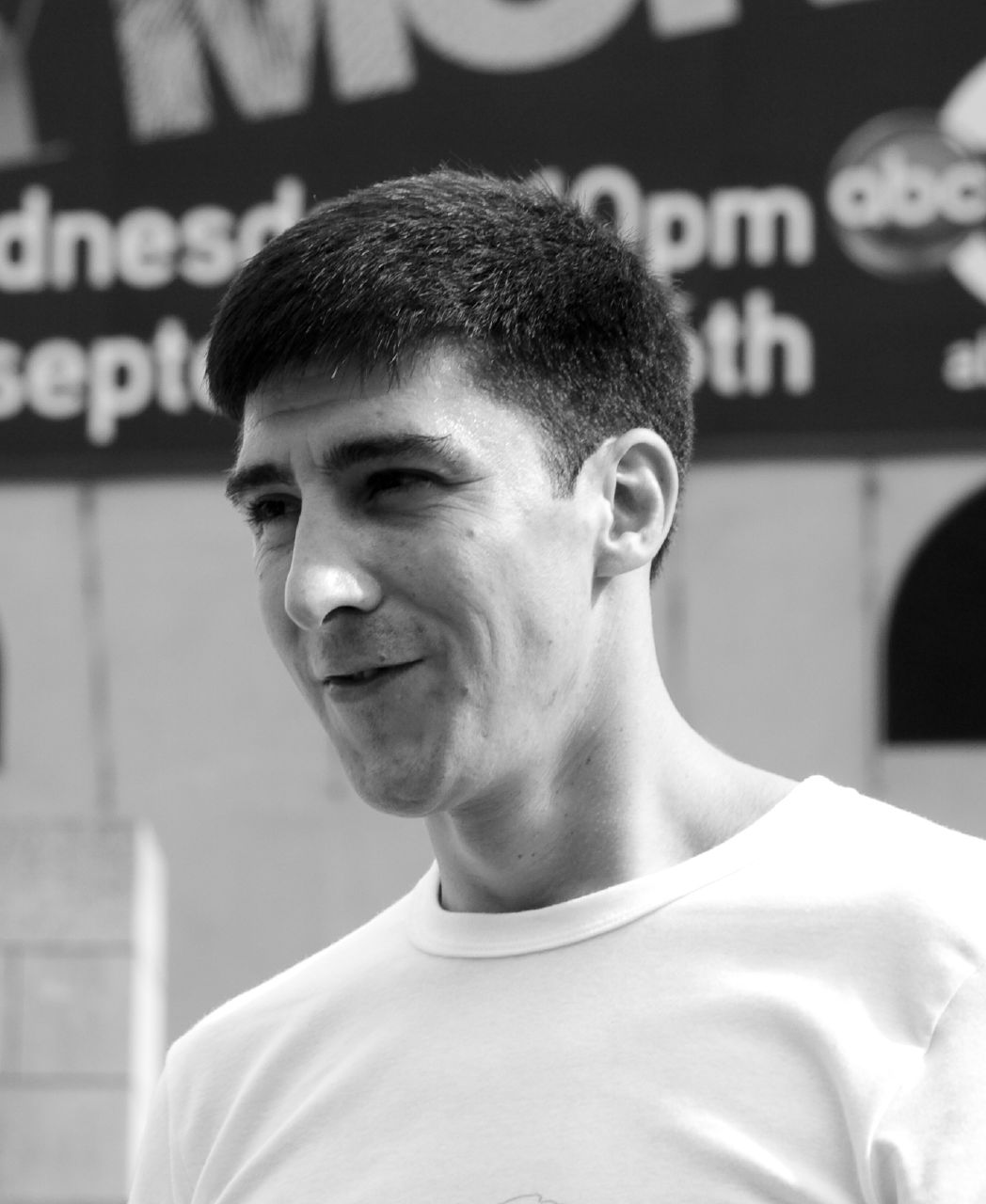 David Belle answering questions from fans on The New Yorker Festival.